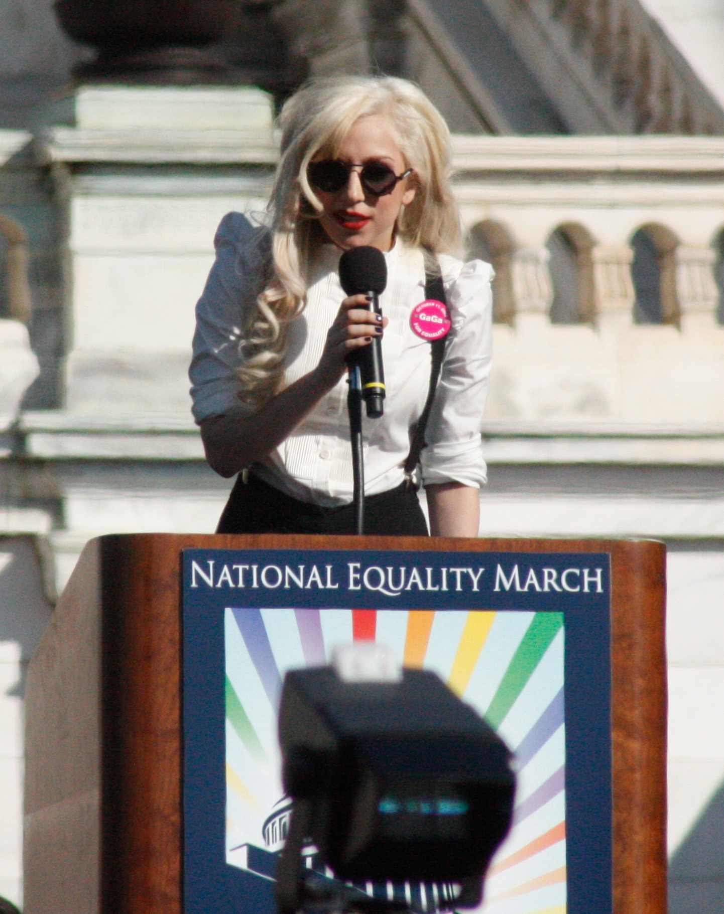 Lady Gaga giving a speech at National Equality March